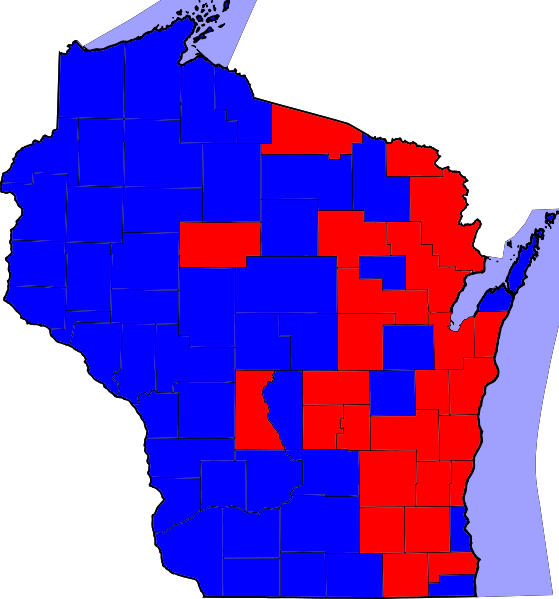 Results of the Wisconsin gubernatorial election, 2006 by county. Blue indicates counties that voted for Doyle, red for Green.